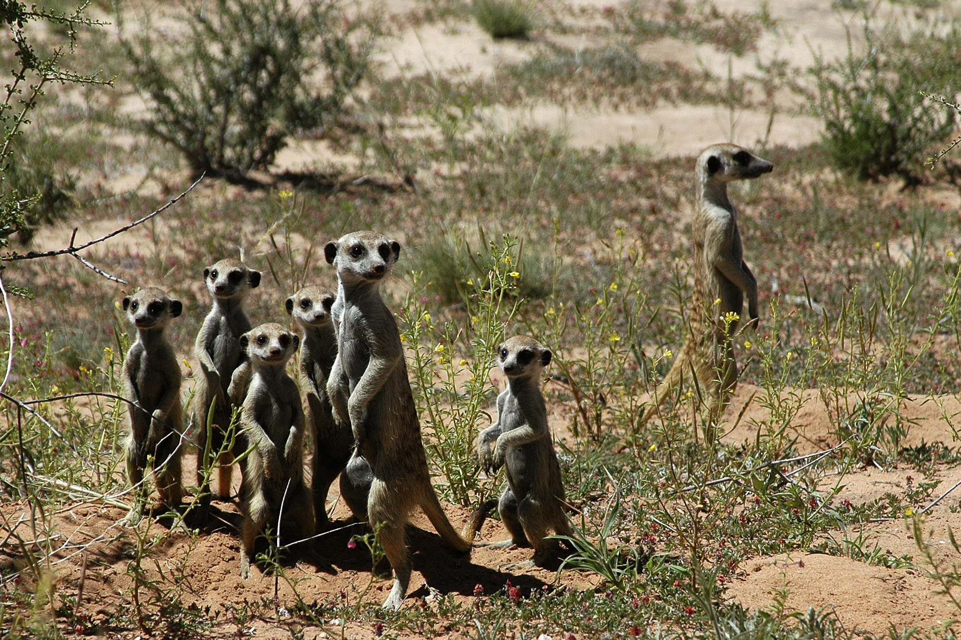 Group of meerkats, picture taken in the Kalahari Desert, South Africa. The meerkats were close to the road and were not impressed by us. So I could take the pictures easily.